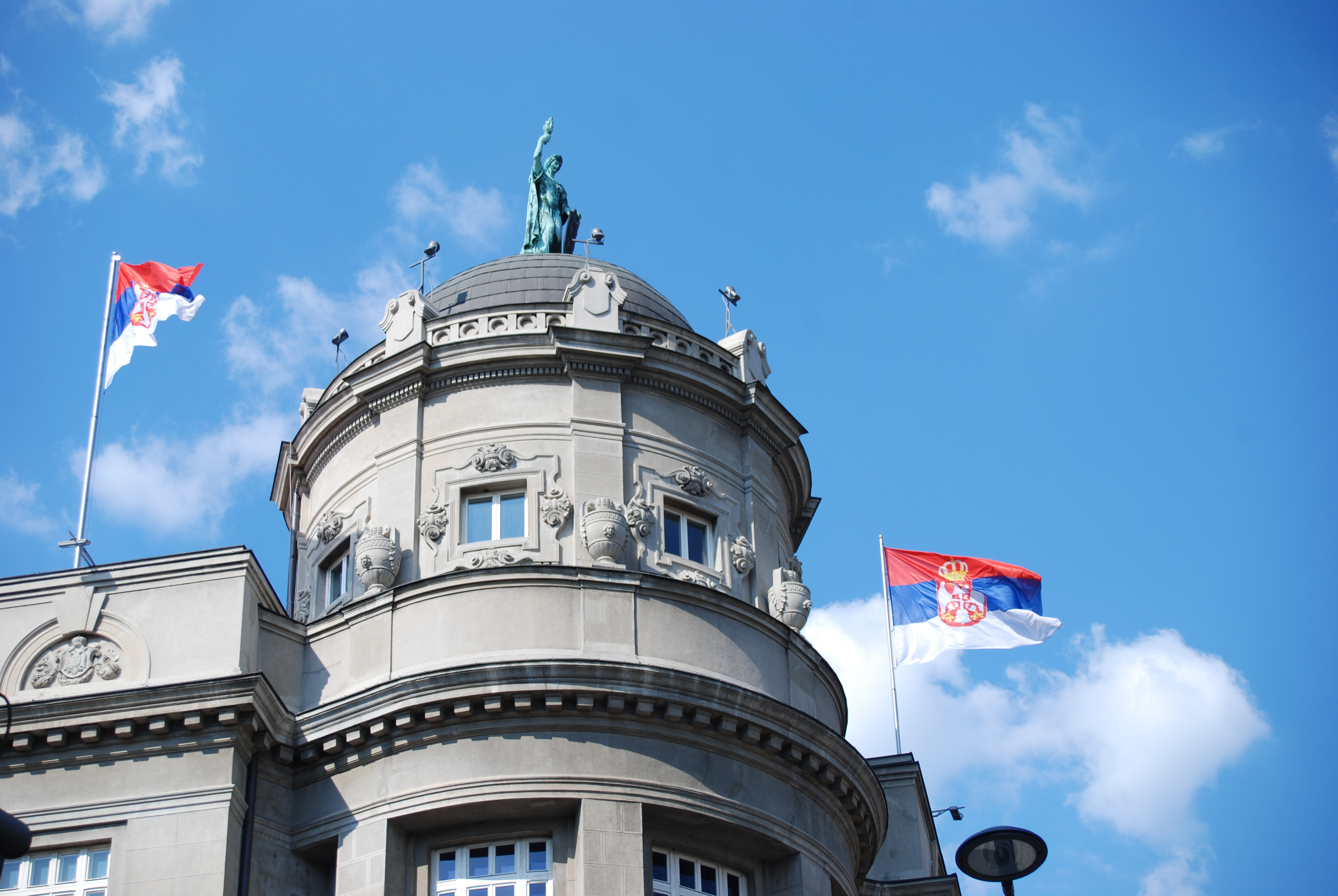 Dome of the government building, Belgrade, Serbia Српски (ћирилица): Купола зграде Владе Републике Србије